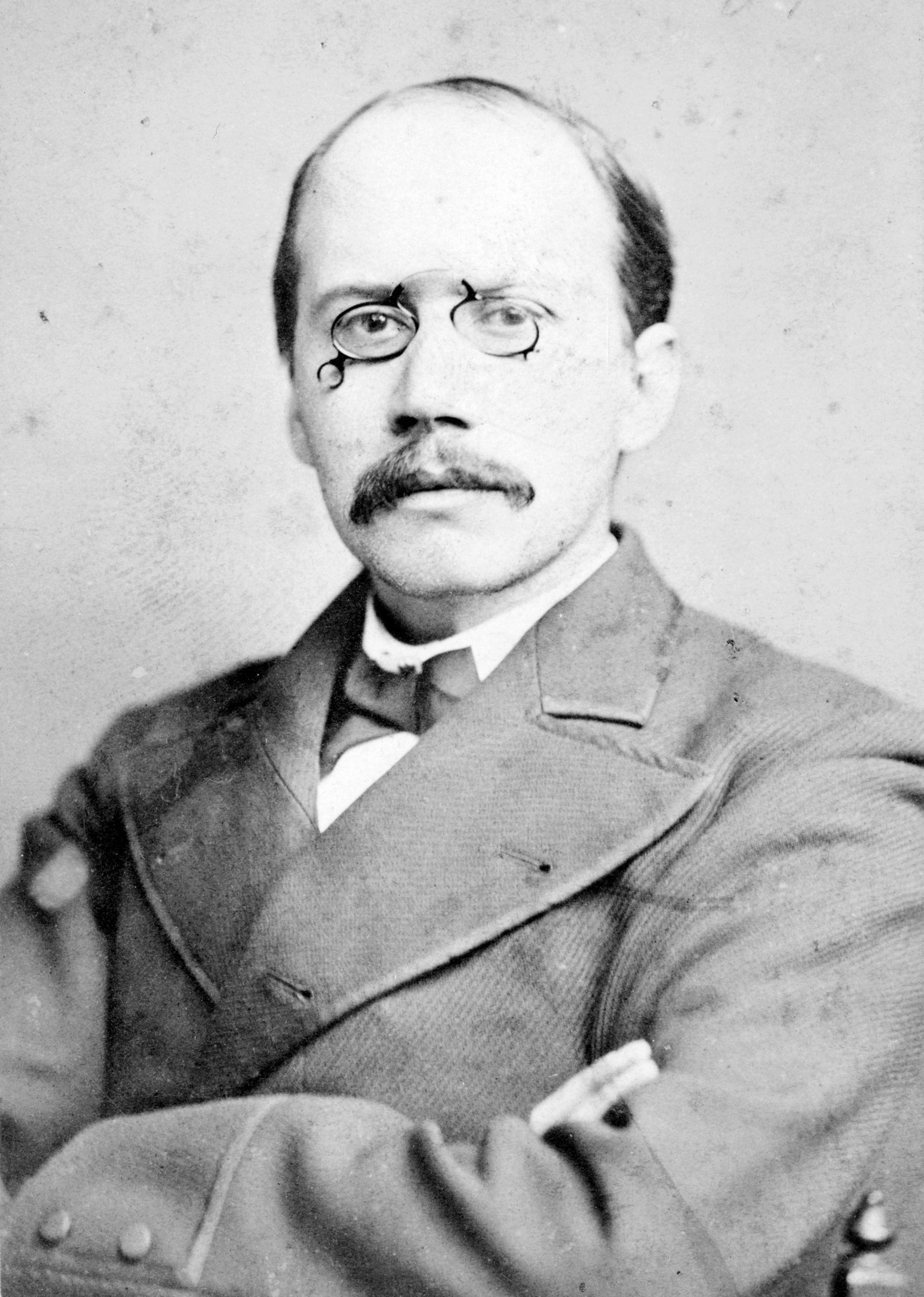 Charles Herber Clark, American author, aka Max Adeler